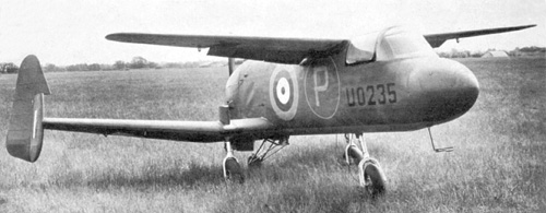 The Miles Libellula M.35 UO235. Imperial War Museum? - picture scanned by me Ian Dunster 20:08, 28 January 2006 (UTC) from the The Miles 'Dragonflies' article in the June 1973 issue of Aeroplane Monthly and uncredited.